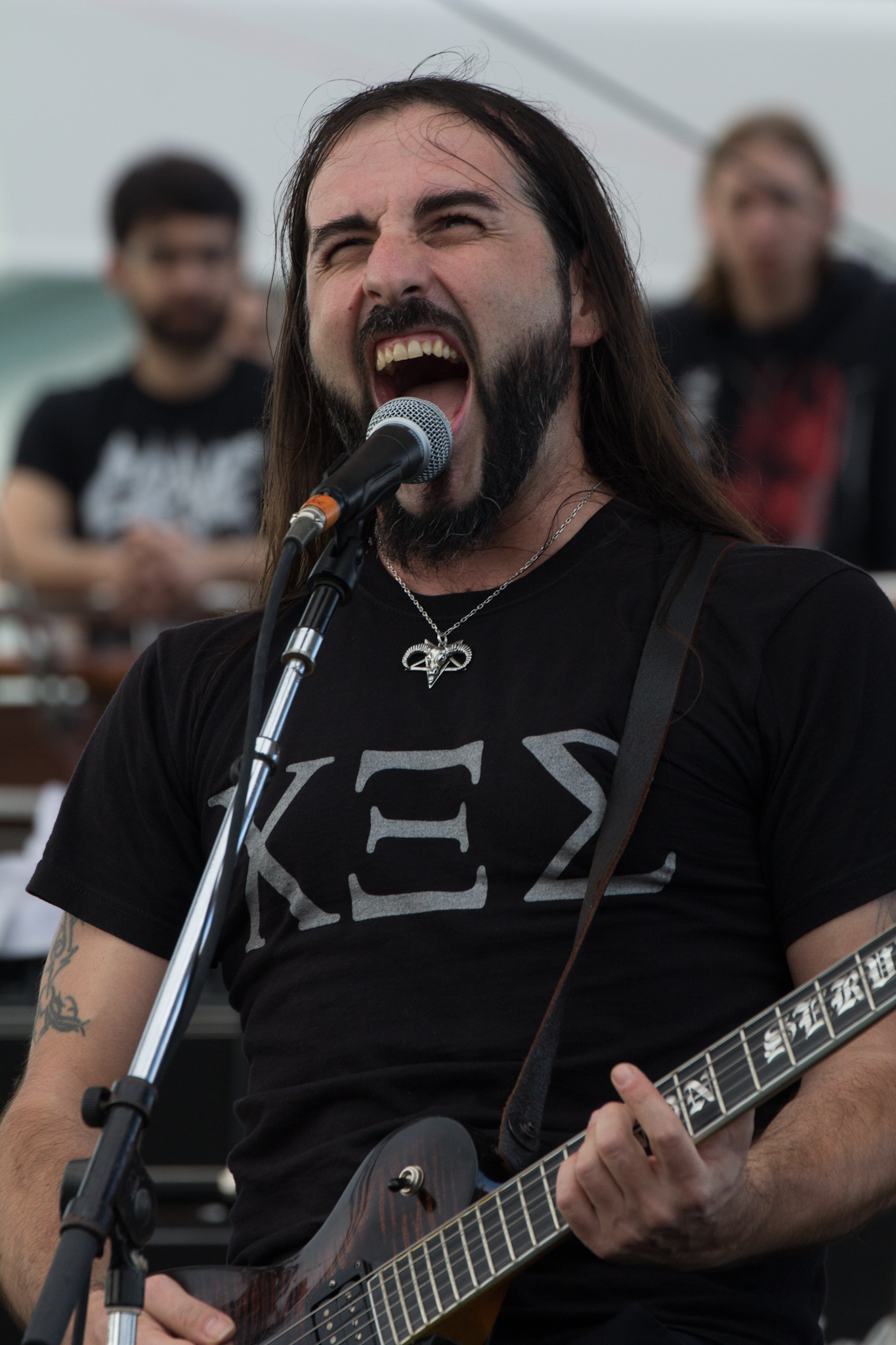 Rotting Christs singer Sakis Tolis at the Barge to Hell